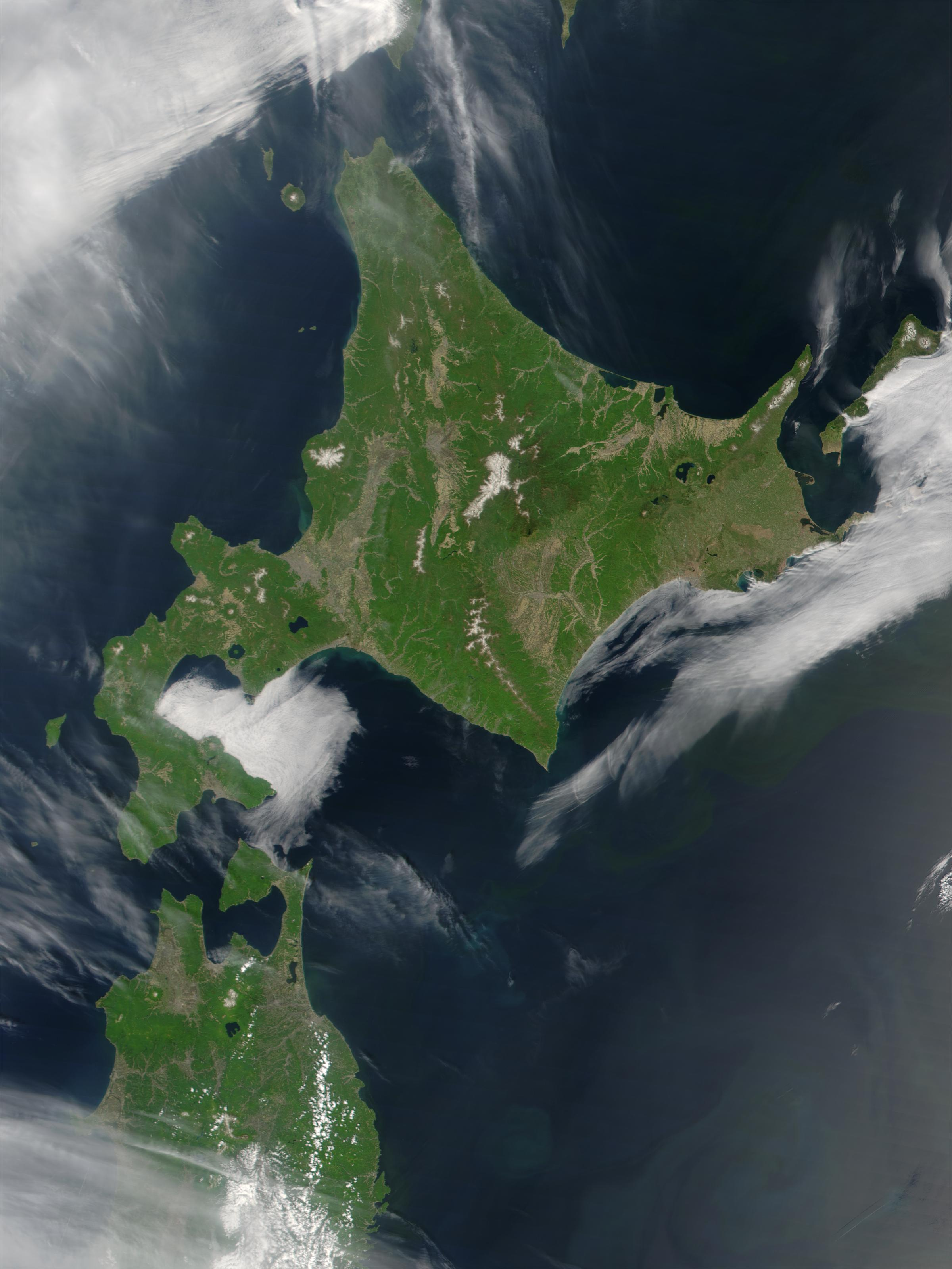 Satellite image of Hokkaido, Japan in May 2001. Taken from NASA's Visible Earth This MODIS true-color image shows Hokkaido, Japan, at the top, and the northern tip of the island off Honshu at the bottom.